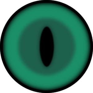 Ulquiorra's eye